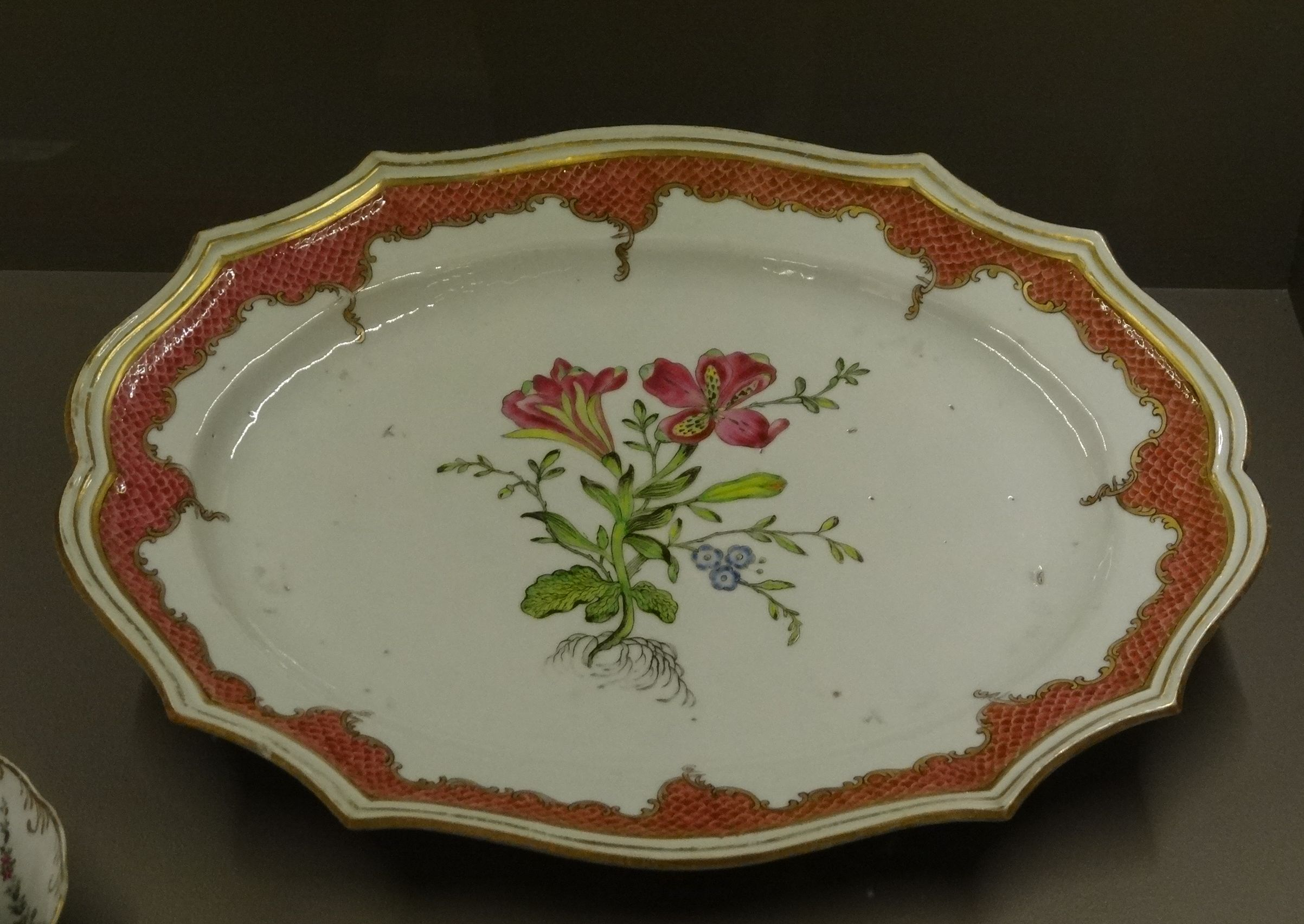 A porcelain plate decorated with the southamerican flower Alstroemeria pelegrina. The genus is named by Carl von Linné as a gesture of gratitude towards the support for the botanical research shown by the swedish family Alströmer.